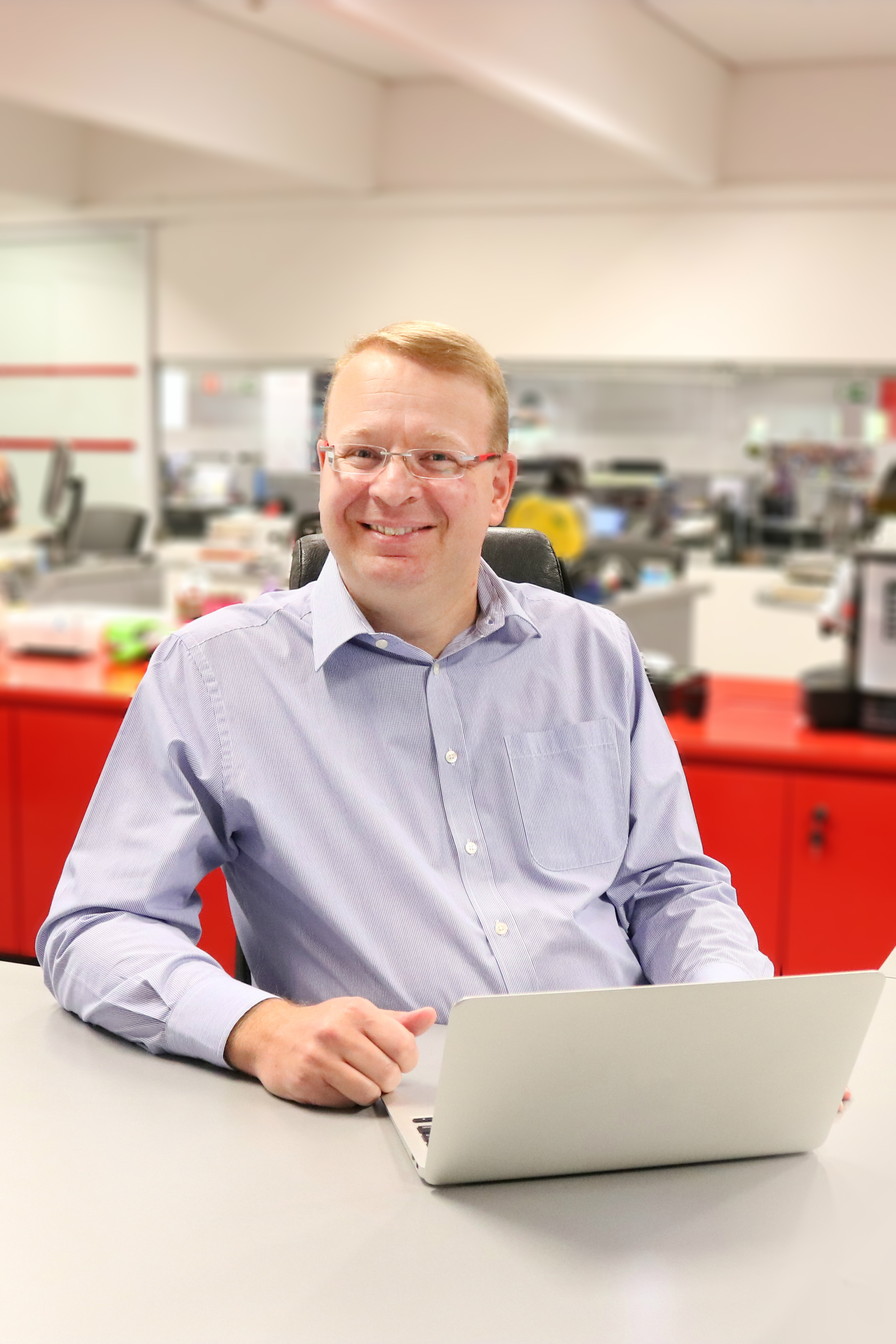 Fernando Cirne, Locaweb CEO